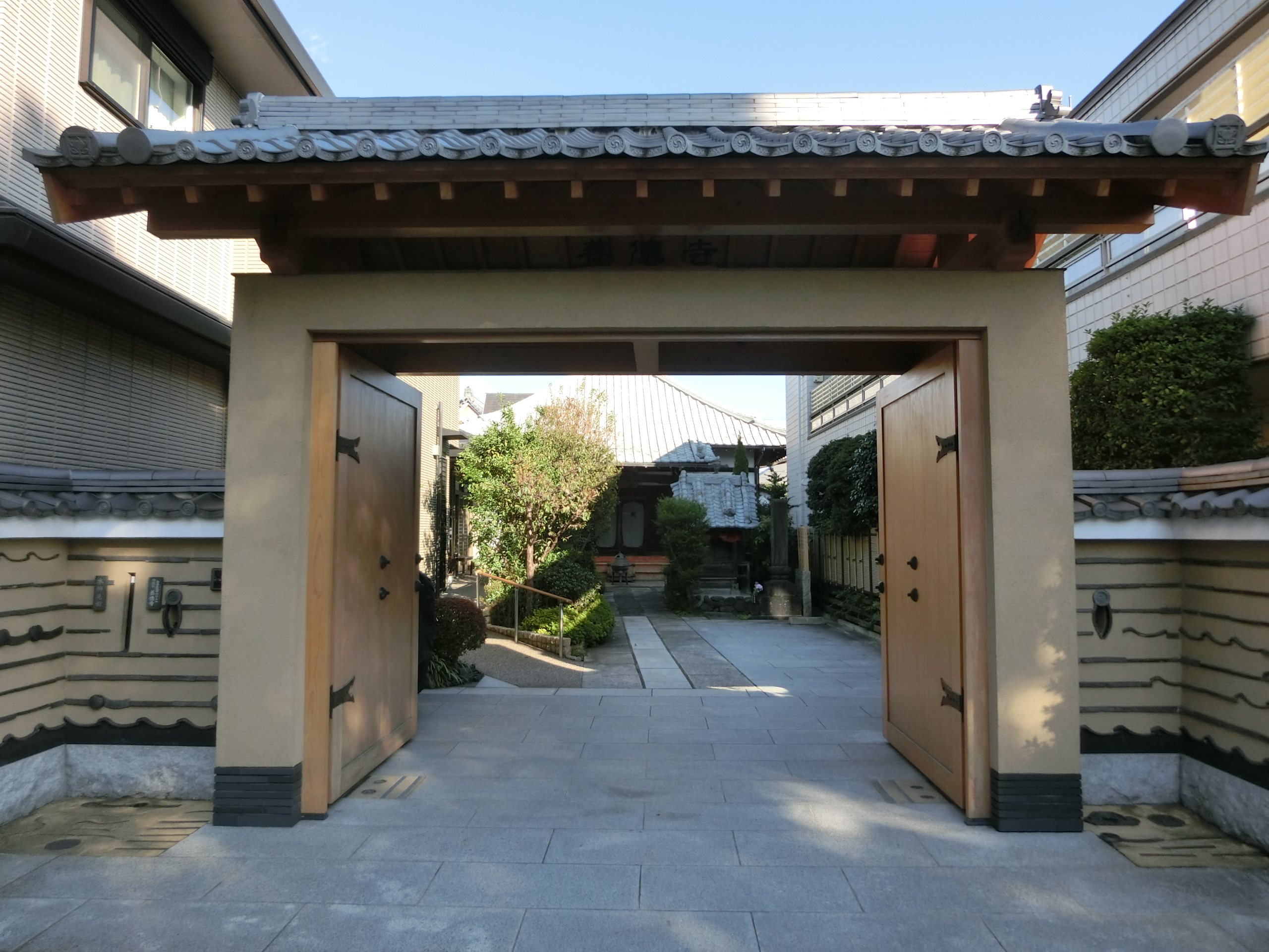 Yoden-ji (Yanaka, Taito)